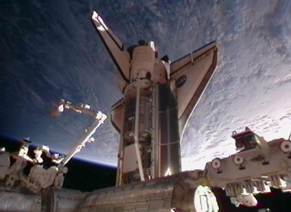 Space Shuttle Discovery docked to the International Space Station on February 26, 2011. Initial docking occurred at 19:14 GMT, two minutes ahead of schedule.